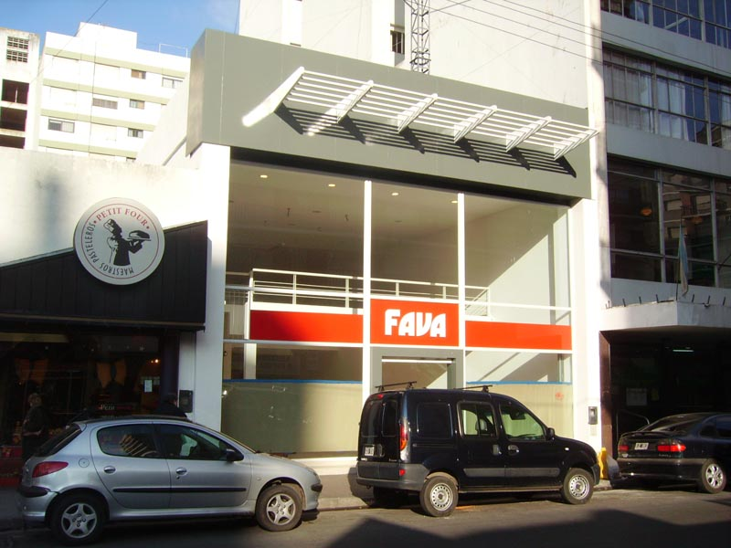 Storefront in San Luis, Argentina.